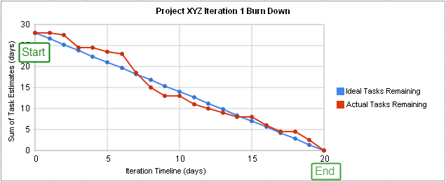 A burn down chart showing the ideal work line and the actual work line and the start/end points for a completed iteration. The image was generated from Burn Down Chart Tutorial: Simple Agile Project Tracking. The site contains free templates that can be used to generate burn down charts for other projects.